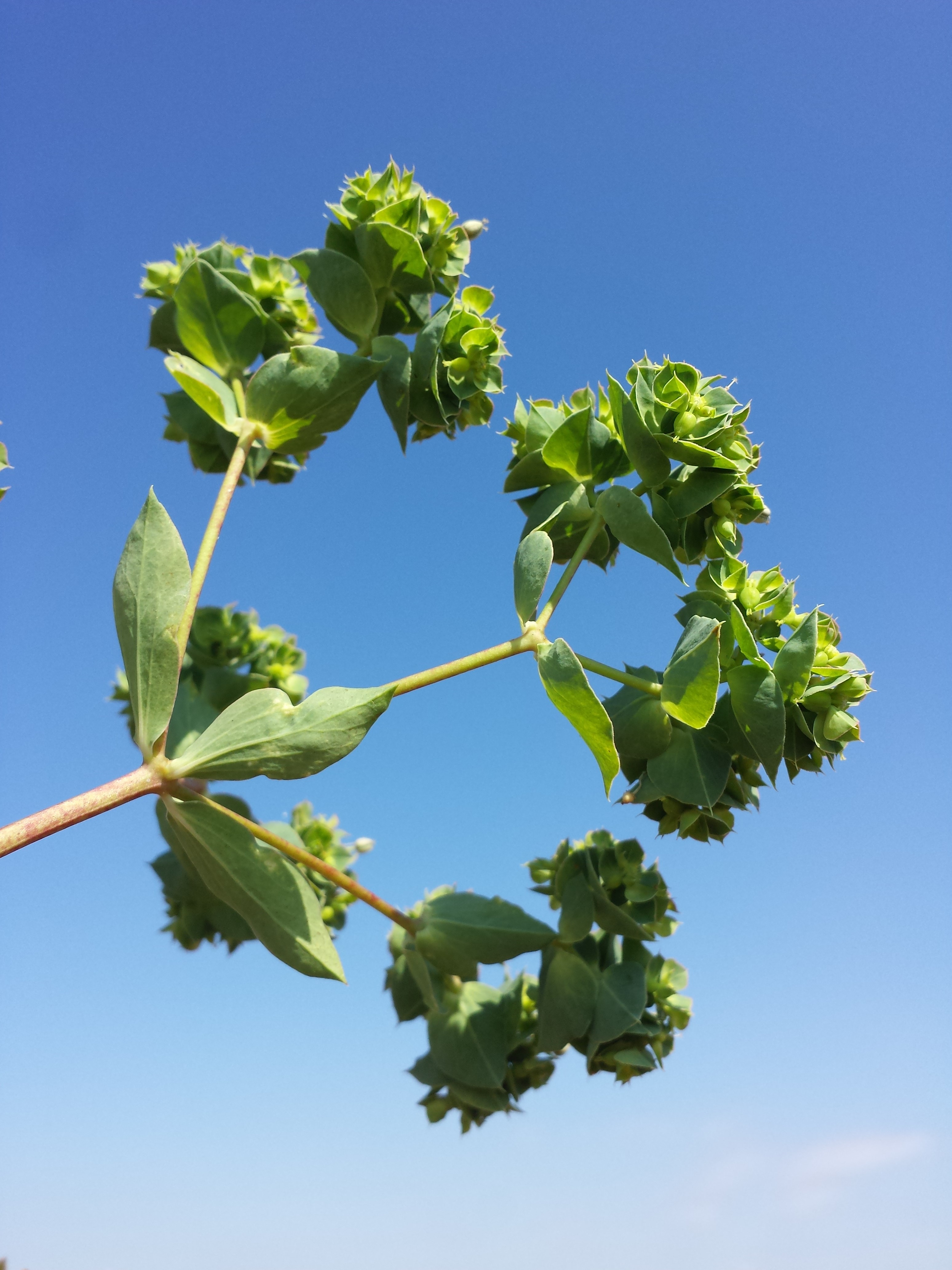 Blütenstand Taxonym: Euphorbia falcata (s. str.) ss Fischer et al. EfÖLS 2008 ISBN 978-3-85474-187-9 Location: Steinbruchberg next to Schletz, district Mistelbach, Lower Austria - ca. 330 m a.s.l. Habitat: field